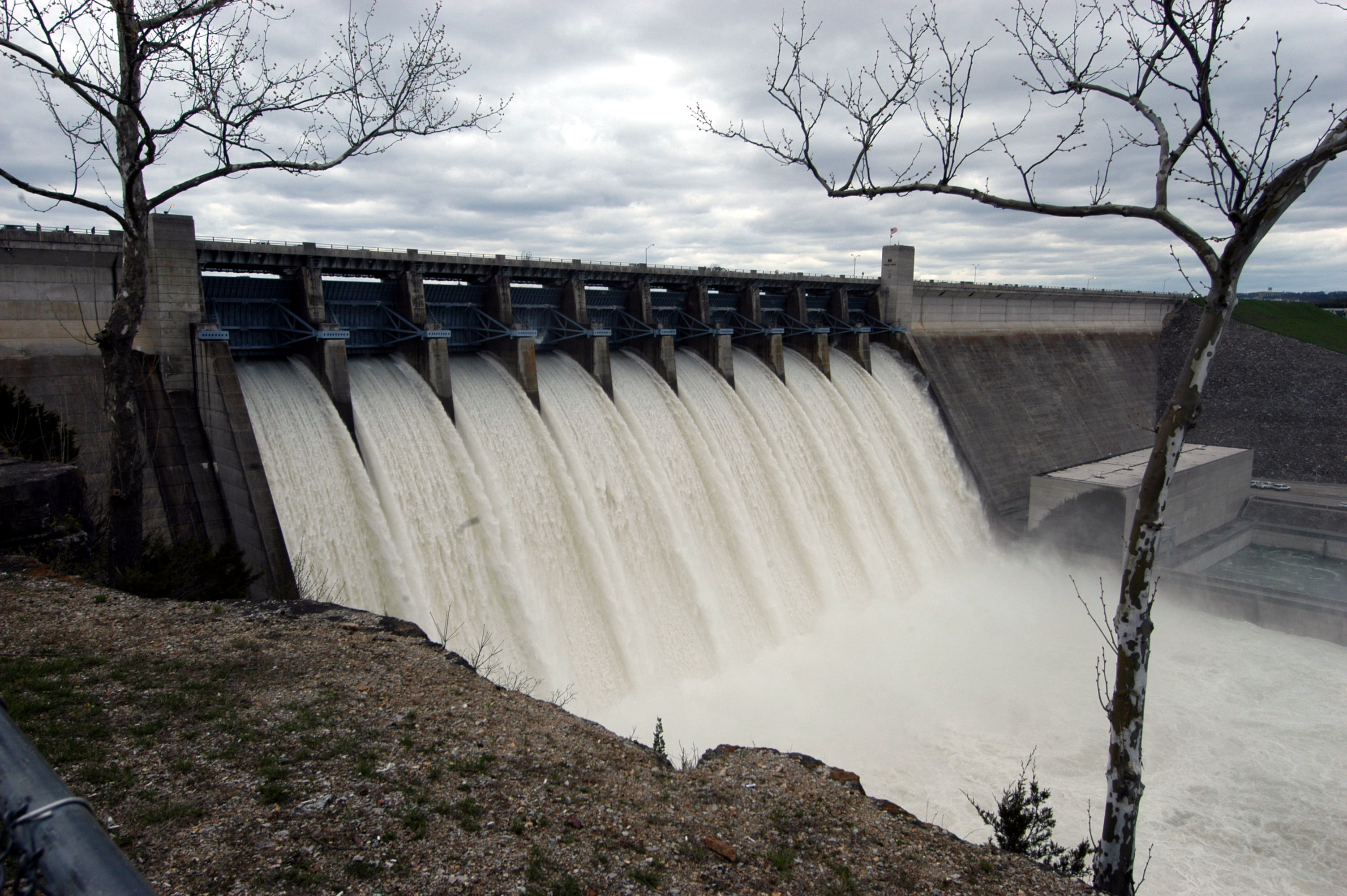 Table Rock Dam Apr 2008 Flood Spillways Open from Obs park